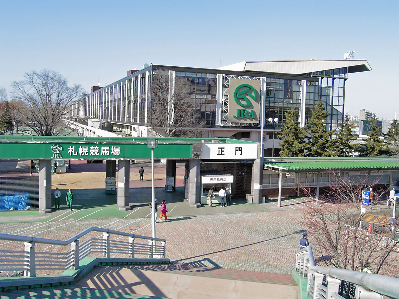 The main gate of the Sapporo racecource